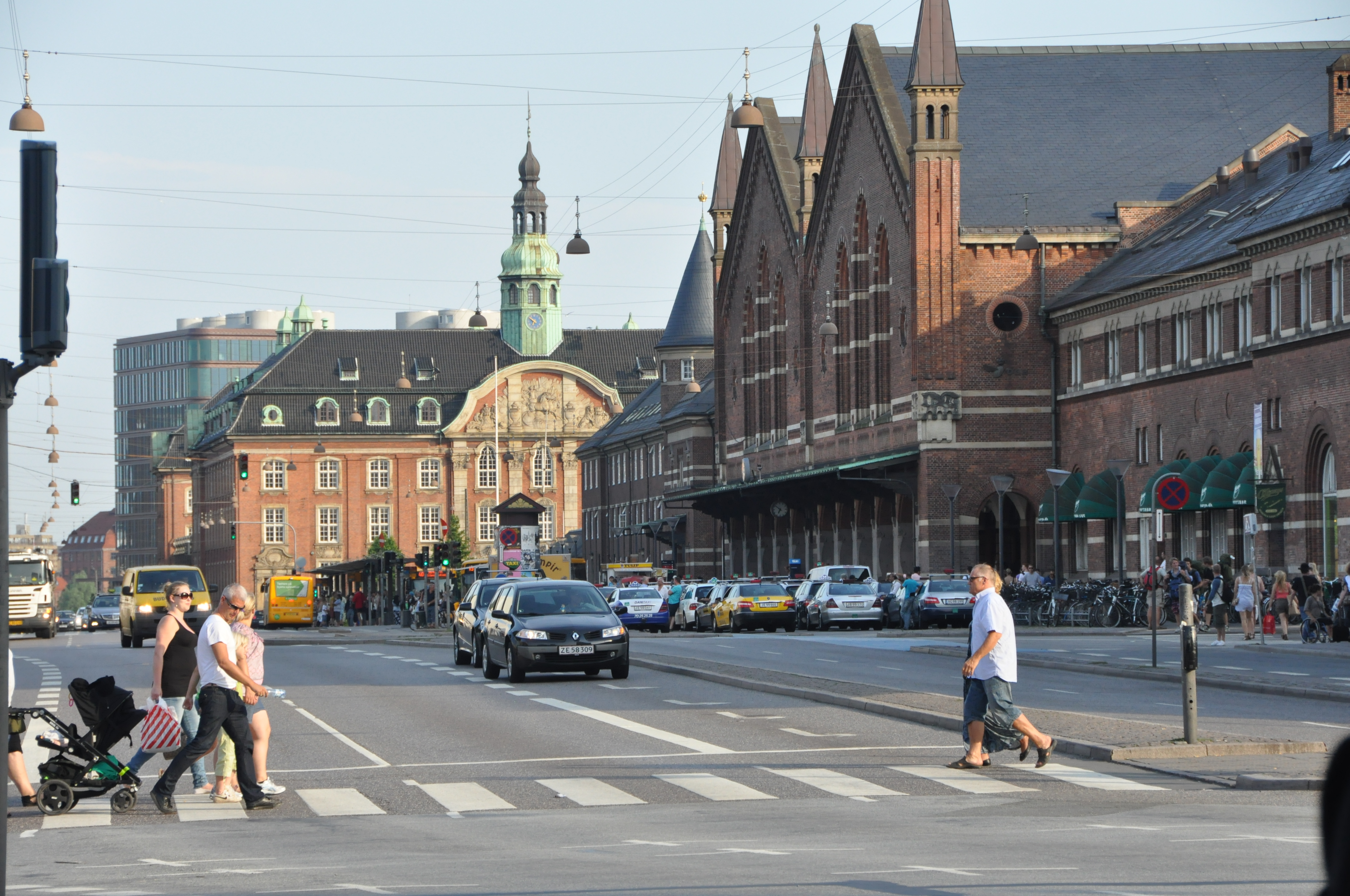 Bernstoffsgade in Copenhagen, Denmark. Buildings seen are the Central Station, The Central Post Building and a bit of SEB Bank.